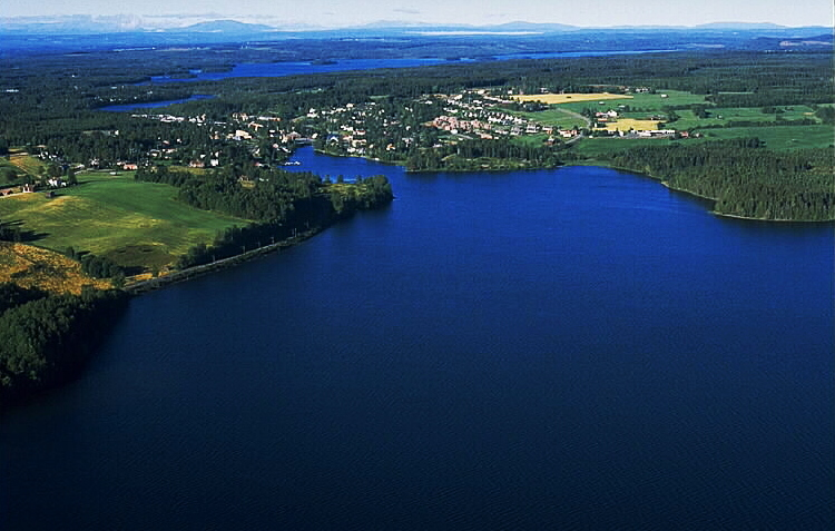 Nälden and Näldsjön in Krokom municipality, Jämtland county, Sweden